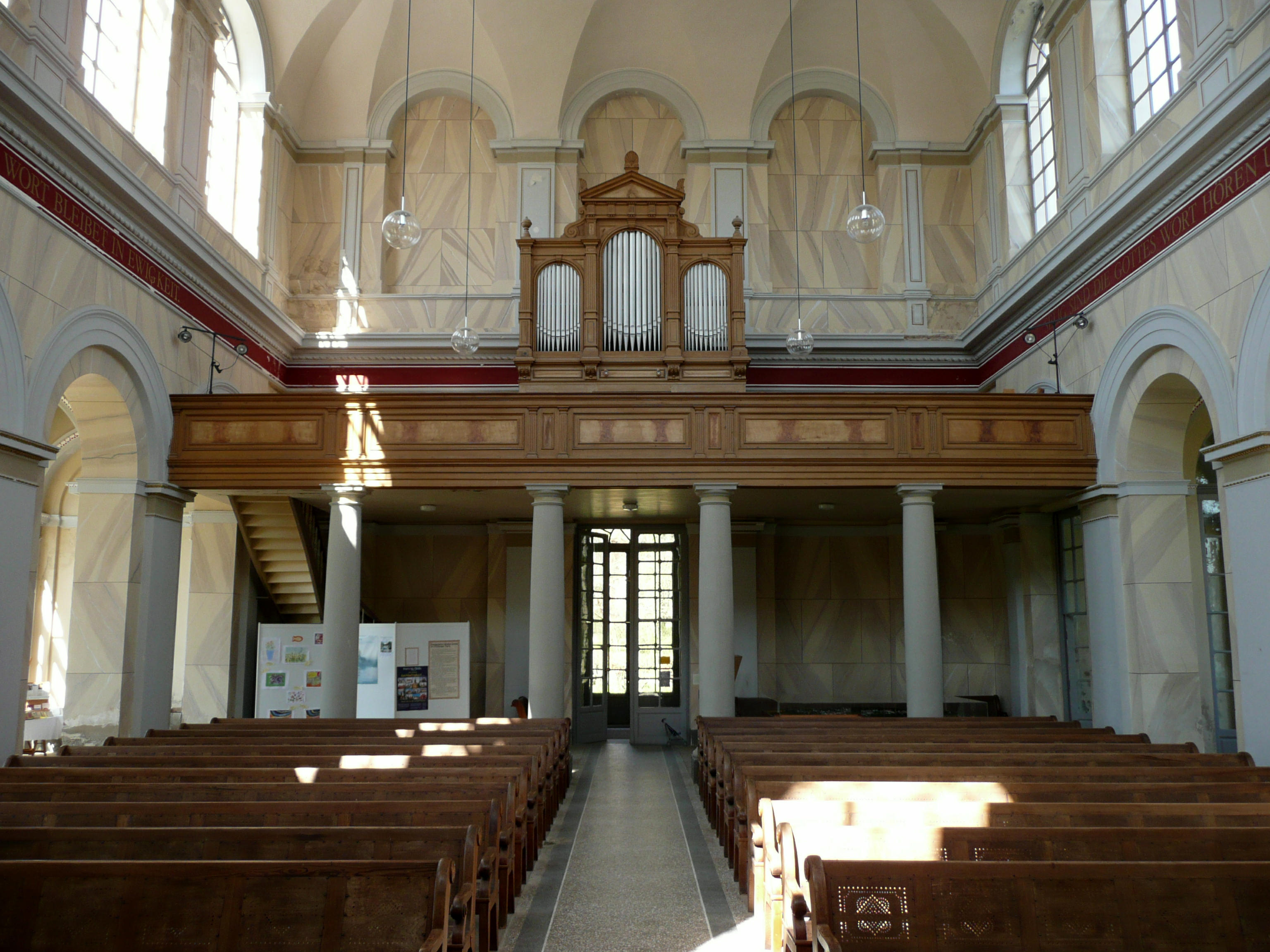 This image shows the Schlosskirche in Putbus.